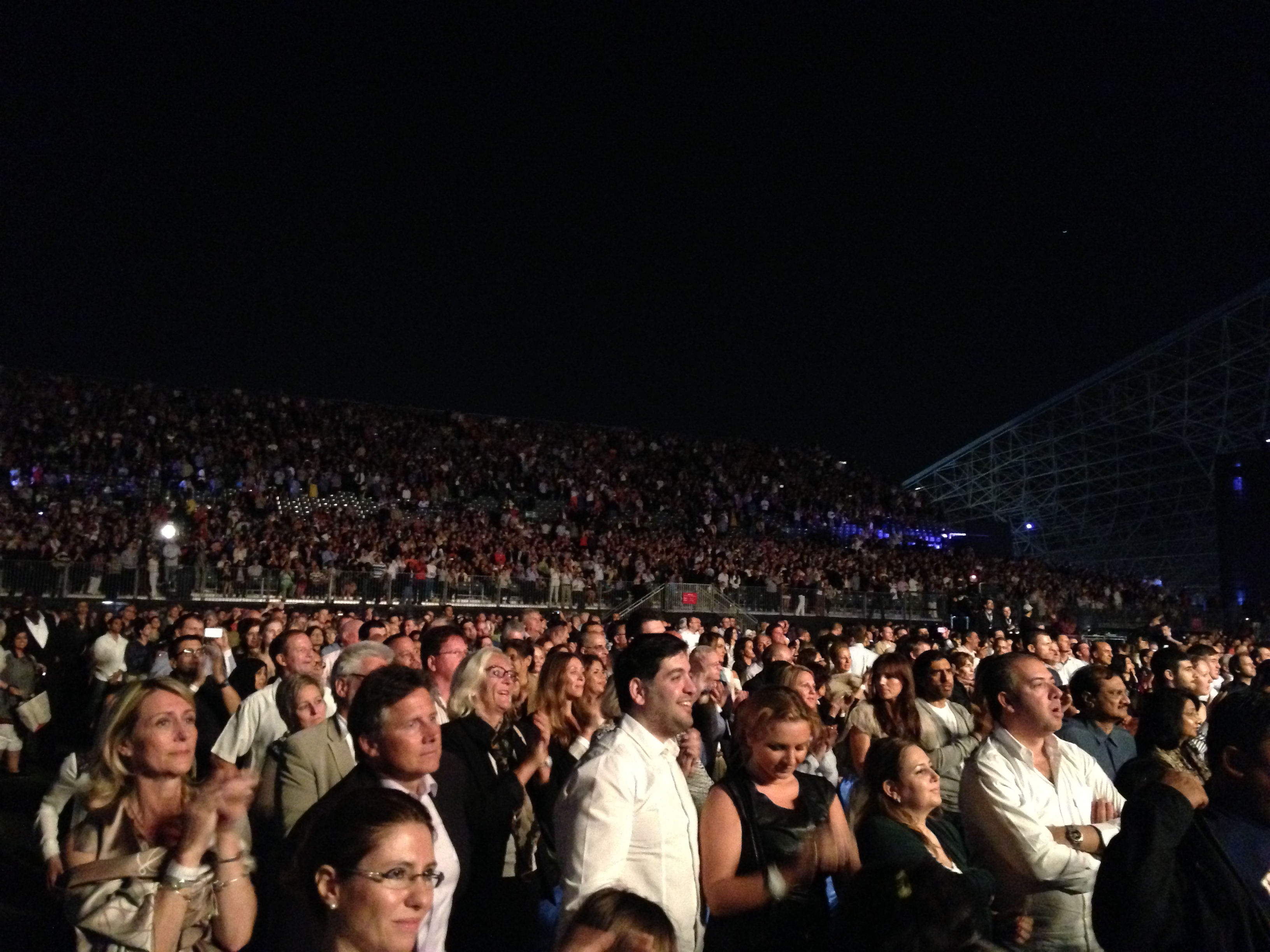 The crowd in Bocelli's concert at du Arena, Abu dhabi, UAE sponspored by du Live! in 22 March 2013